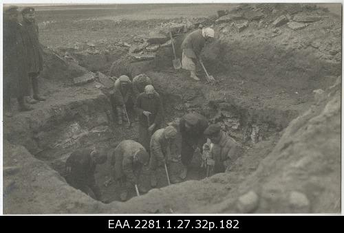 "Ühistöö" volunteers digging trenches at the Southern Front of Estonian War of Independence